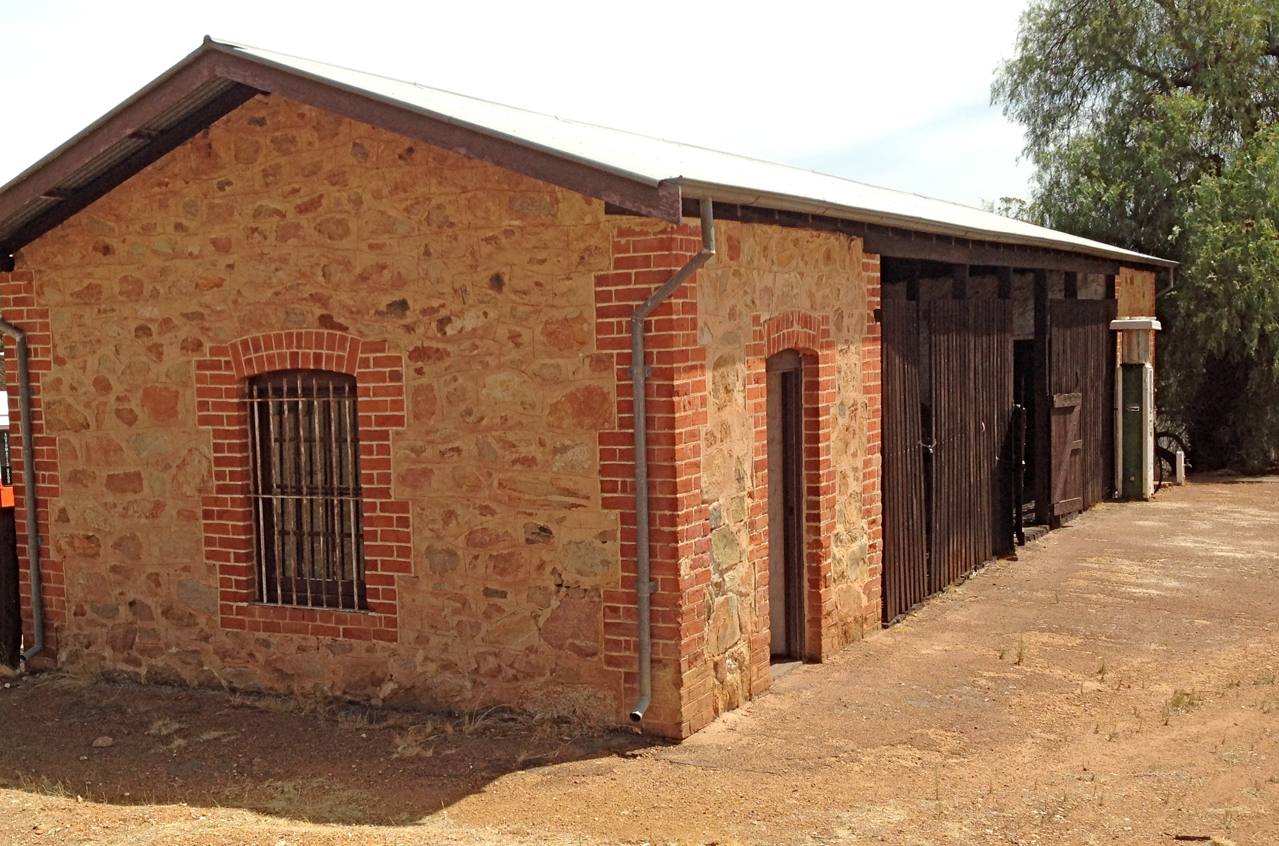 Toodyay, Western Australia, Police Stables taken from southeast